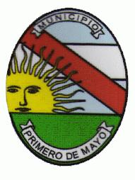 escudo Primero de Mayo - Entre Rios - Argentina